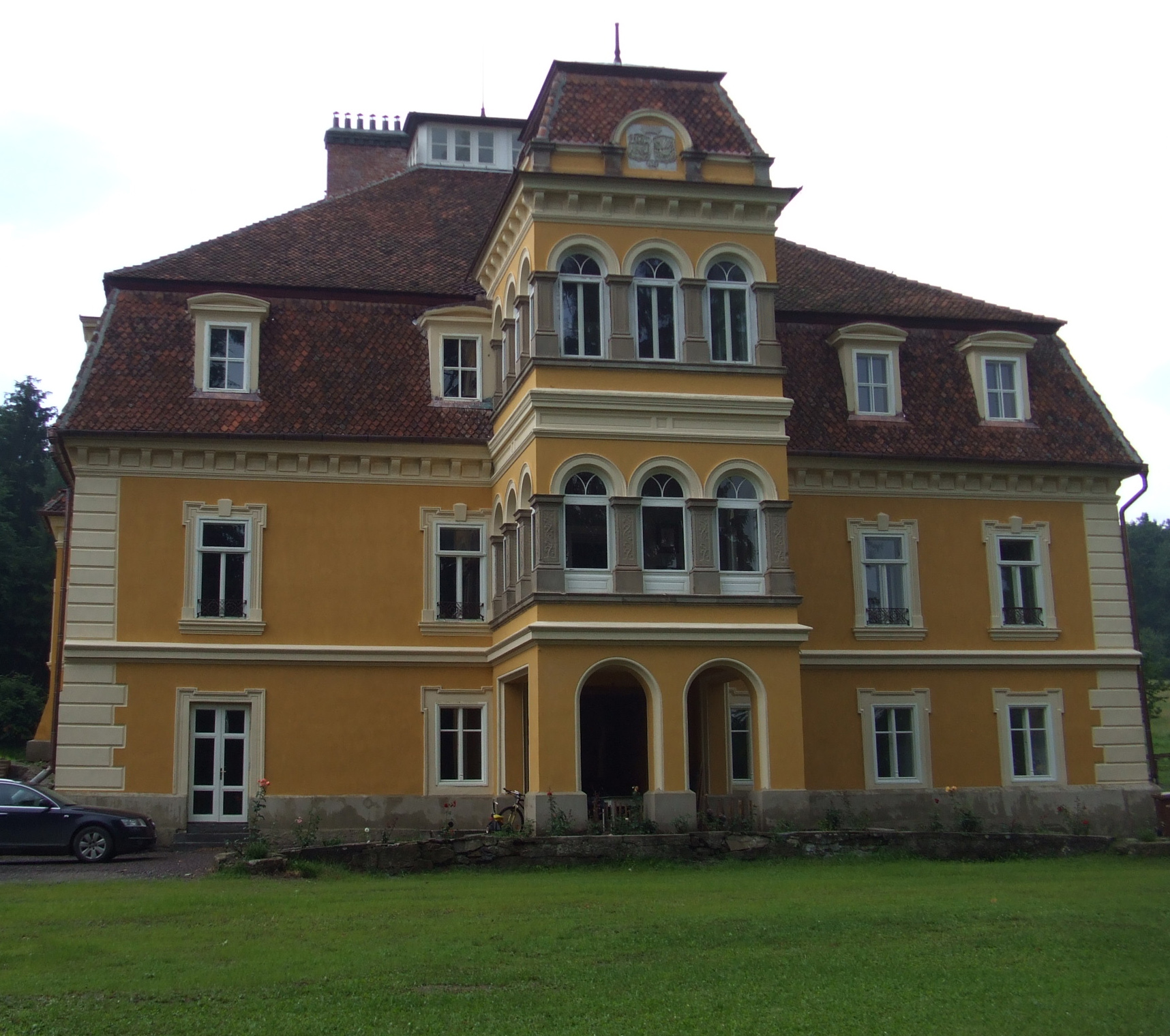 The Mikes Castle in Zăbala (hungarian: Zabola). Front view.